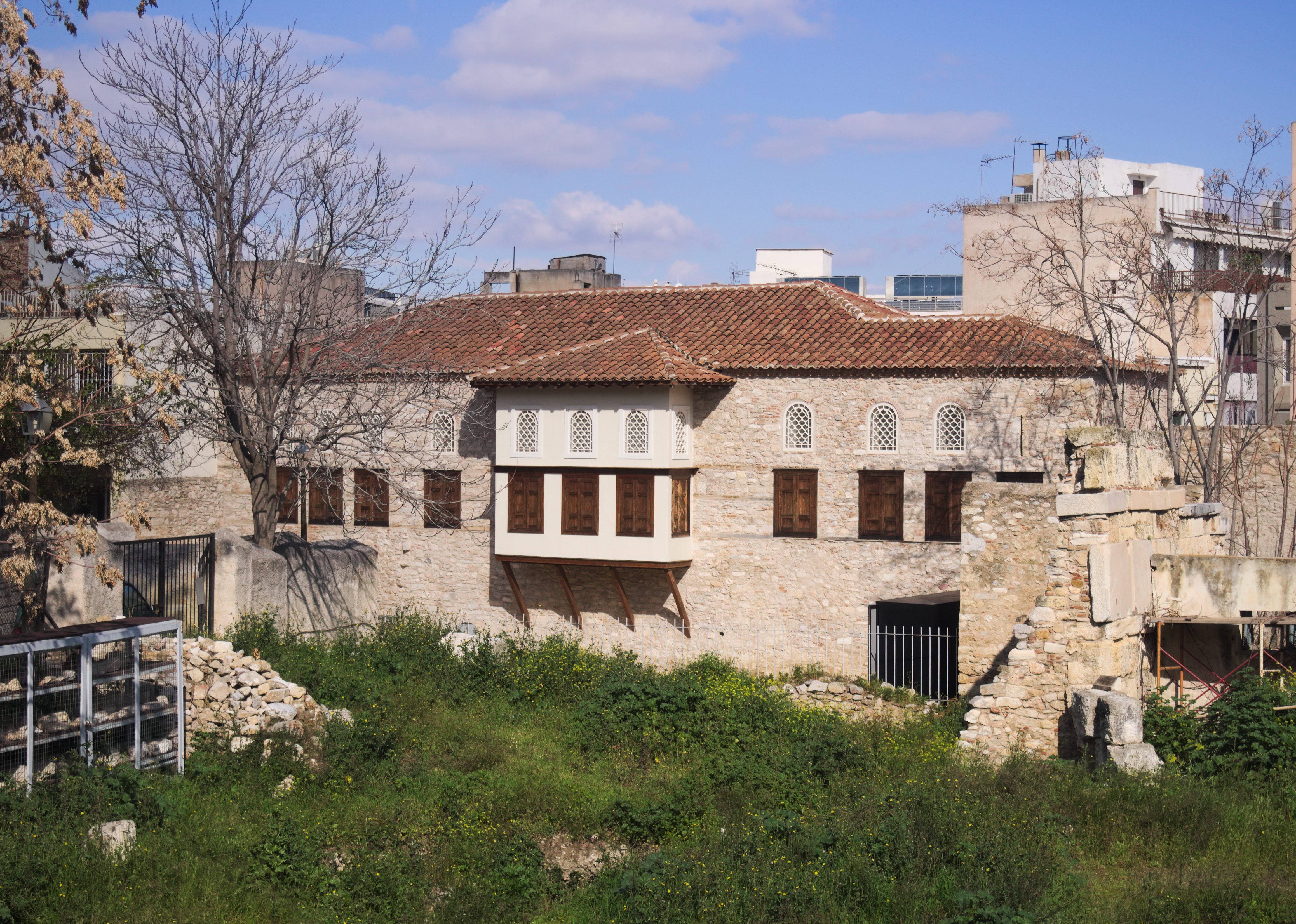 Benizelos mansion, in Plaka, after the renovation. Dating from the 16th century AC, it is the oldest surviving house in Athens. View from south.